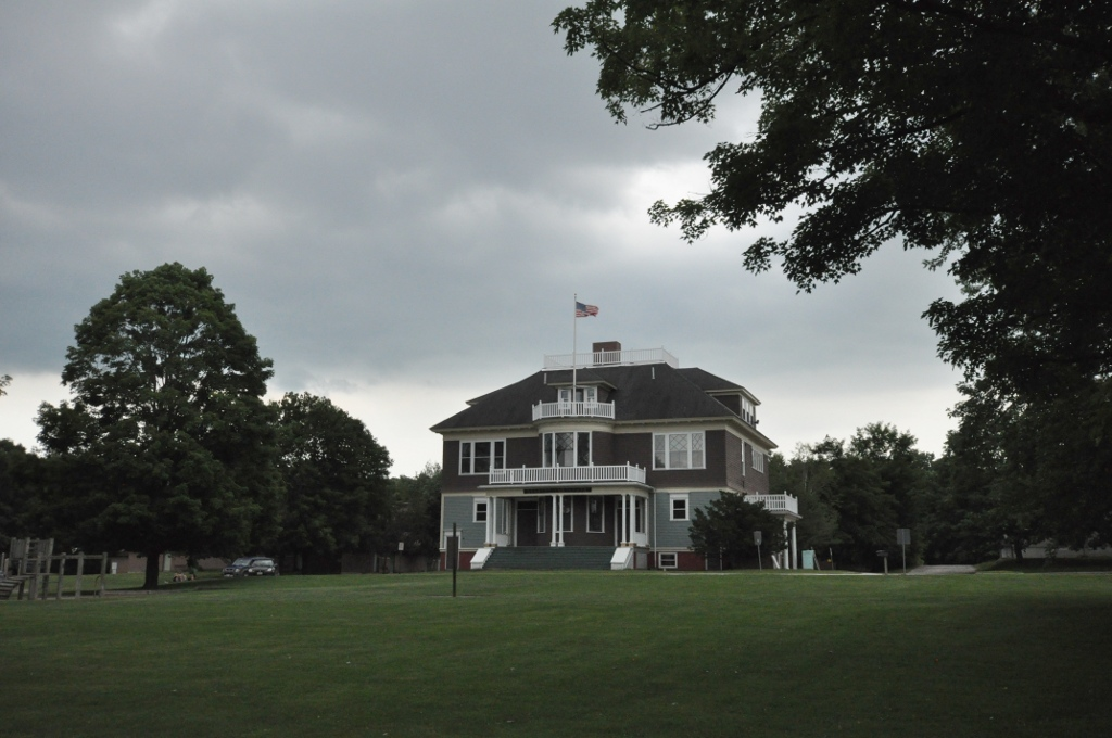 Leavitt Institute building, Turner, Maine. This was the town's first high school; it is now its public library.